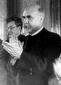 Boris Pavlivich Pozern (1882-1939), Russian revolutionary and Soviet statesman